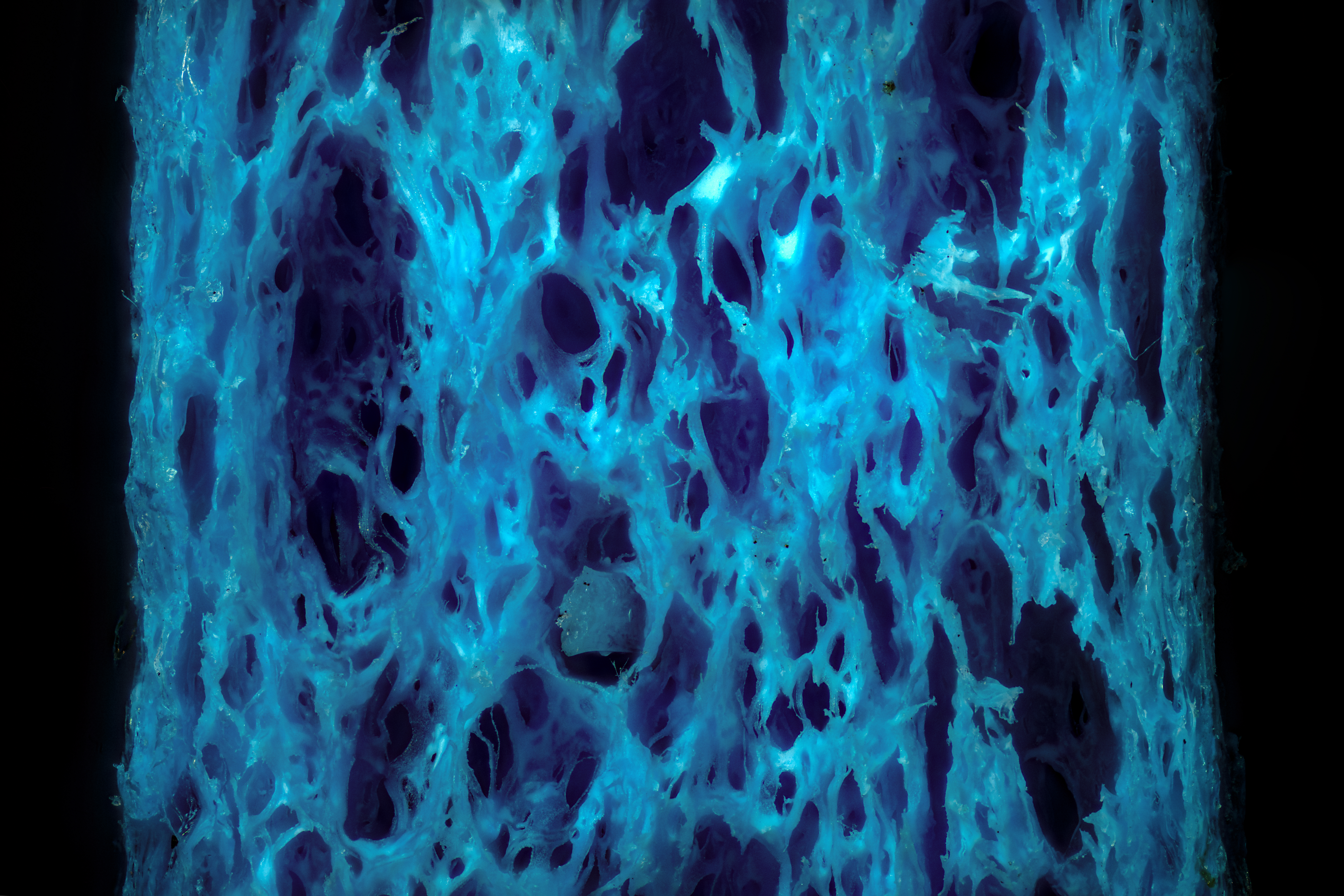 Cellulose napkin under microscope